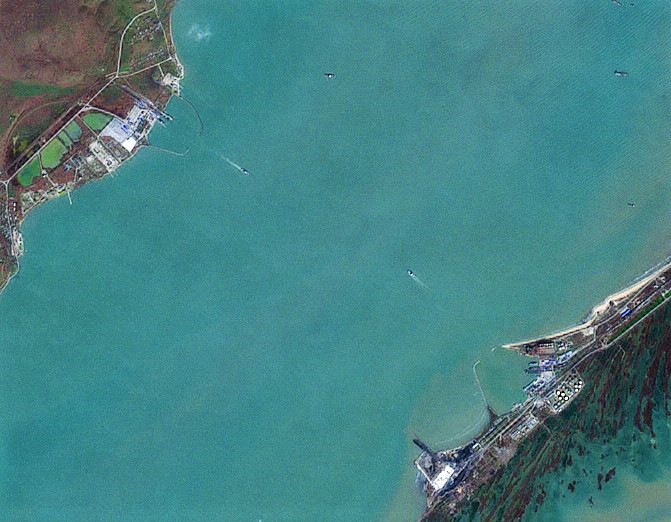 Kerch Strait Ferry, Sentinel-2 satellite image, resolution 10 m, near natural colors, 2018-MAR-5